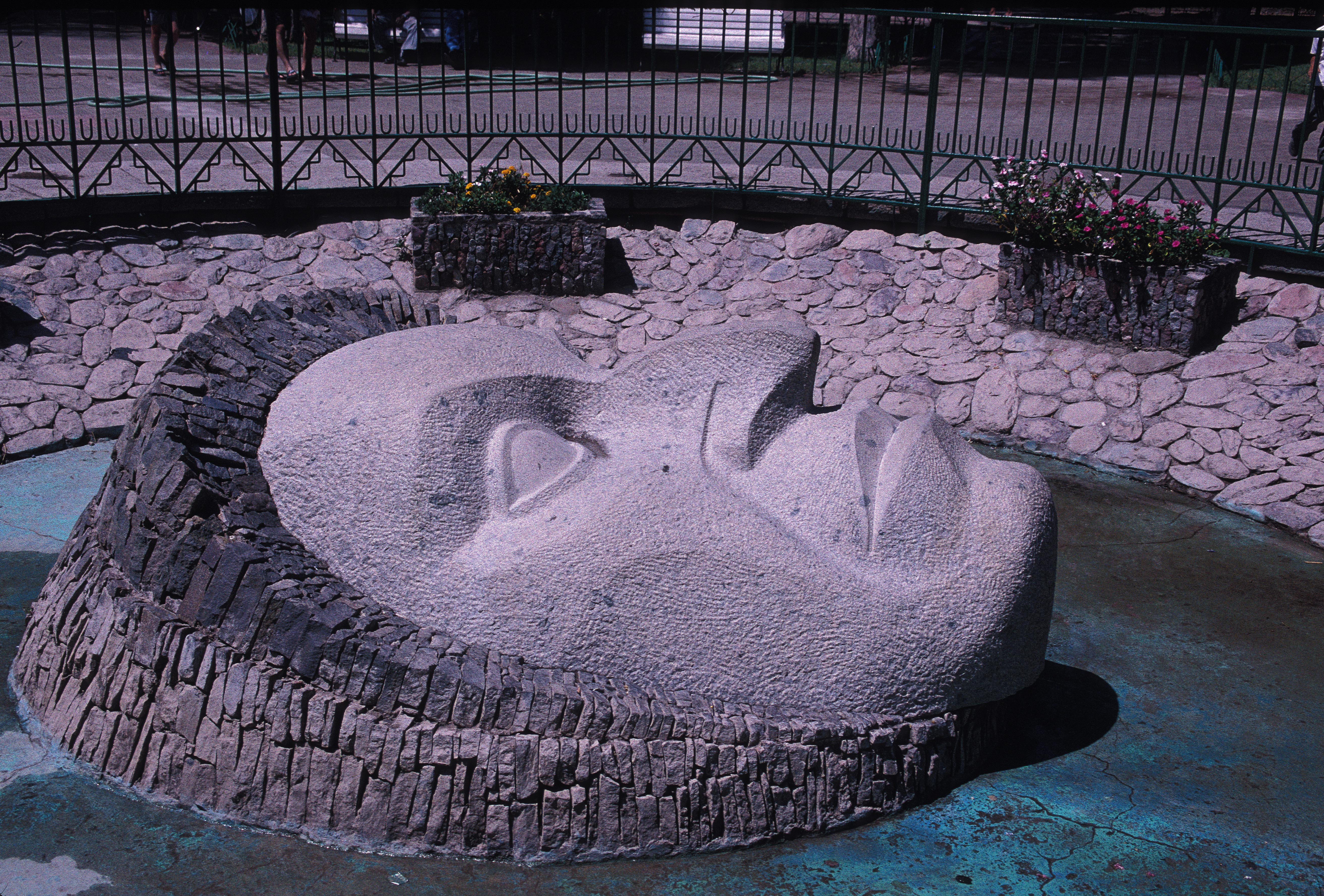 GABRIELA MISTRAL WAS A POET AND CHILE'S FIRST NOBEL PRIZE WINNER. The sculpture was done by Héctor Román